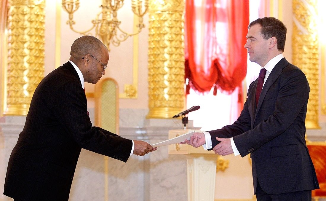 GRAND KREMLIN PALACE, MOSCOW. Presentation by foreign ambassadors of their letters of credence. Dmitry Medvedev receives a letter of credence from Ambassador of the Republic of Malawi Isaac Chikwekwere Lamba.